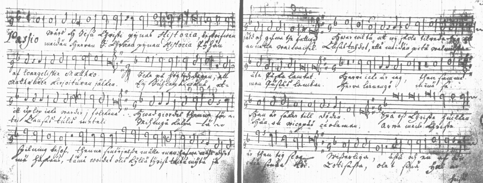 Pori trivial school partbooks, Discantus part book, page 3. Beginning of St Matthew Passion by Melchior Vulpius. Text in Swedish and Finnish